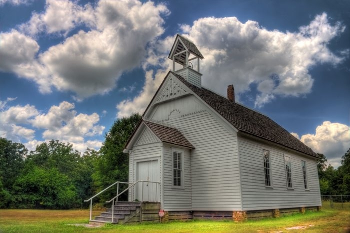 This is the historic Smyrna Church just outside Searcy, AR. It was built in the 1800's and is the oldest standing church in Arkansas.